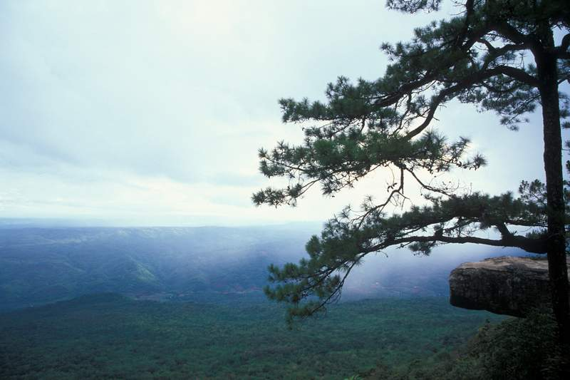 This image has been taken from the Thai Wikipedia. Permission was granted to use this image. A view from one of the numerous cliffs of Phu Kradung mountain in Thailand.